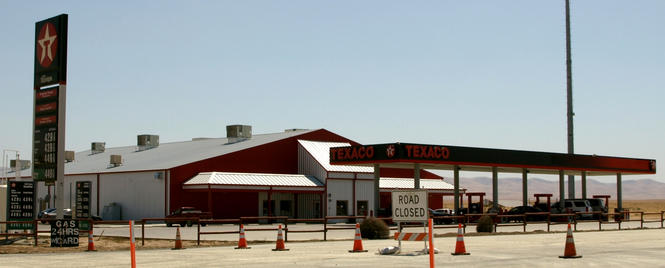 Texaco gas station and mini-market at 17191 Highway 46, Blackwells Corner, California. Blackwells Corner was originally established by local machinist George Blackwell as a service station in 1921 and eventually included a cafe and grocery store. The location became famous as the last reported stop of actor James Dean prior to his tragic death in a fatal car accident just down the highway. A fire destroyed the station in 1968, however the establishment was soon re-built. The building was later remodeled in the 2000's to include modern fixtures. View from the northwestern corner of the West Side Highway (California State Route 33) and Paso Robles Highway (California State Route 46) intersection, looking southeast.This photograph was taken with an Olympus E-510 DSLR camera and edited (brightness, contrast, saturation, crop, roatate) using ArcSoft PhotoStudio 5.5)